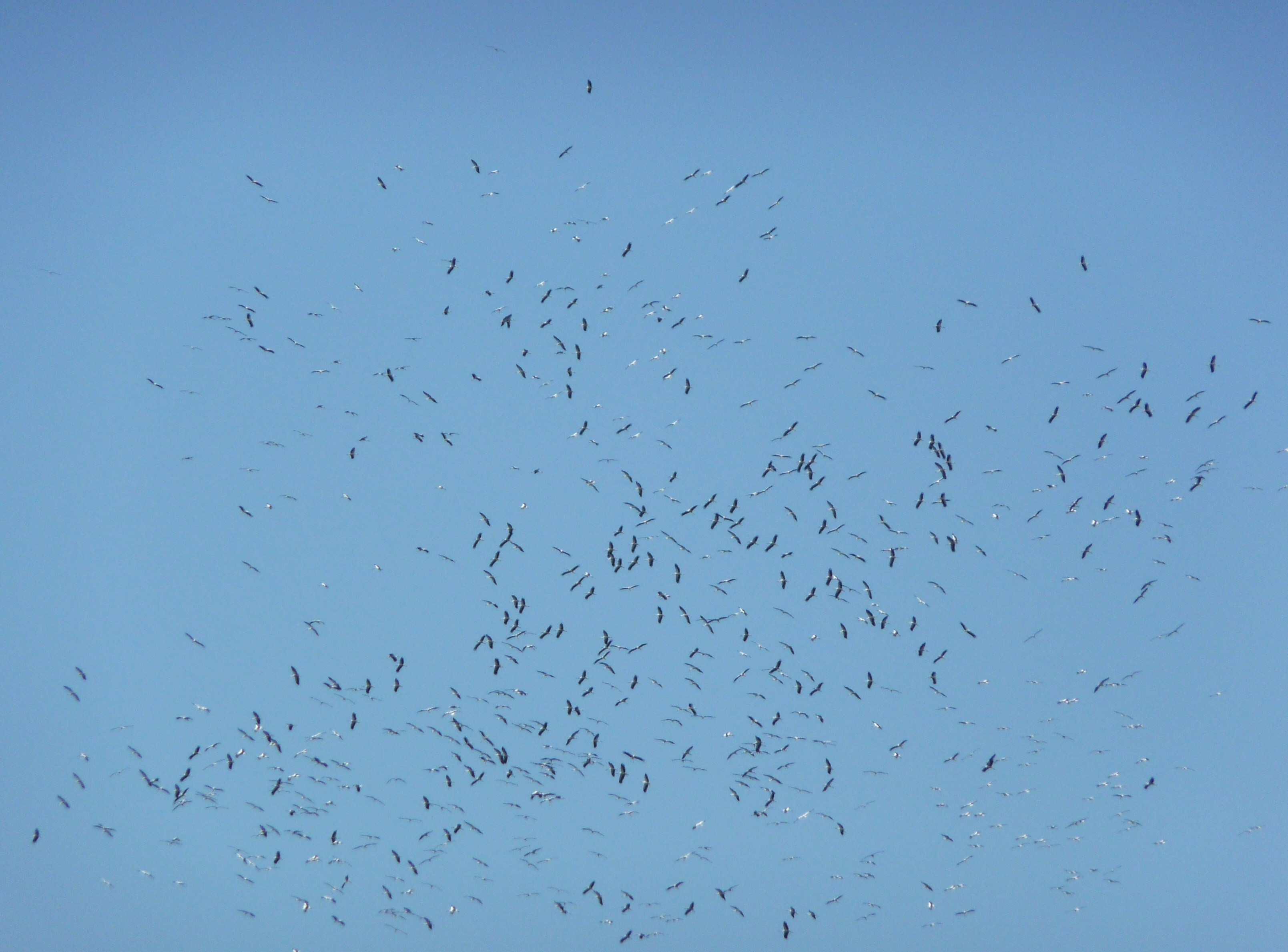 Flock of storks migrating over Istanbul, Turkey